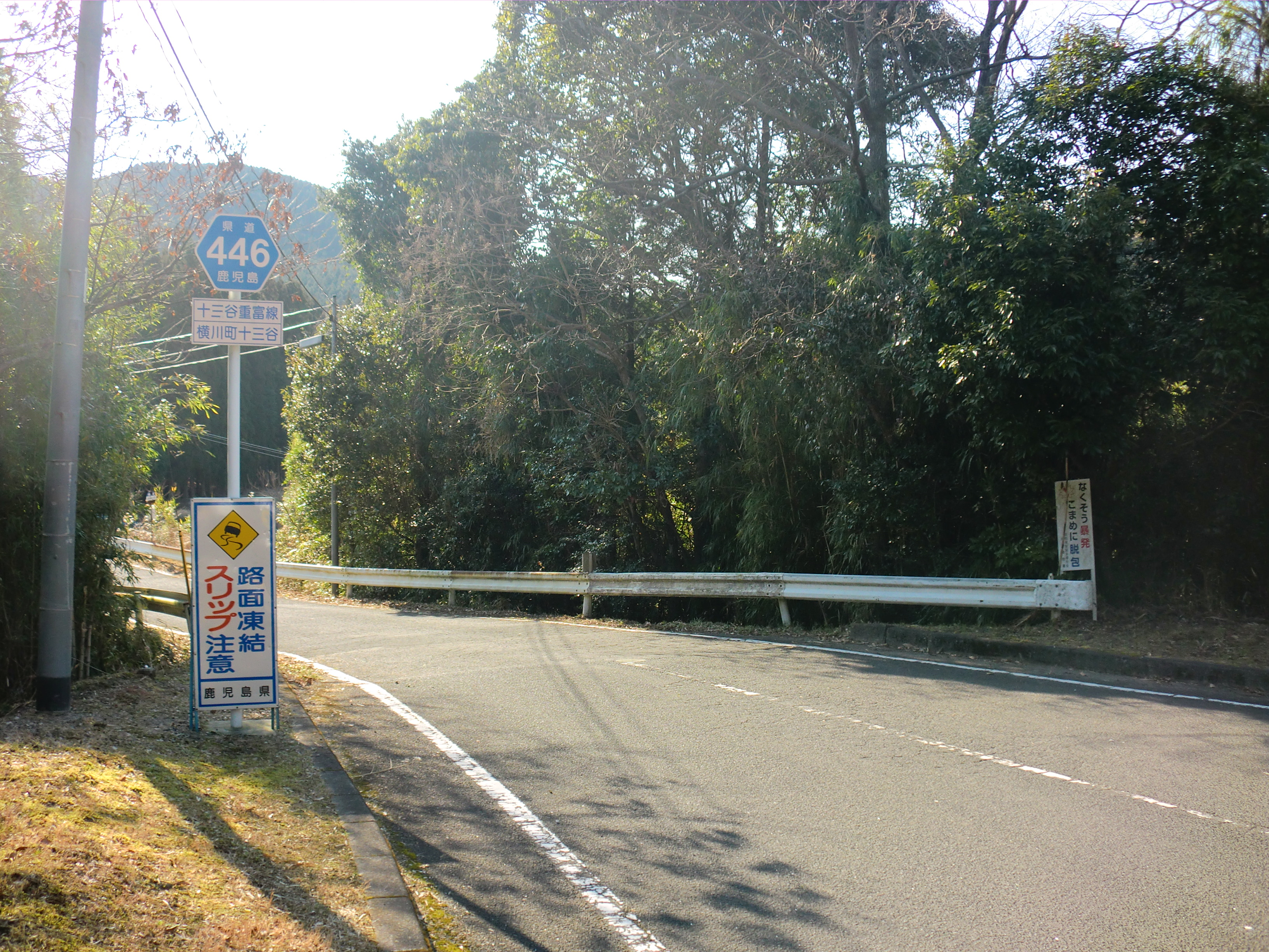 The Kagoshima Prefectural Road Route 446 in Kirishima City